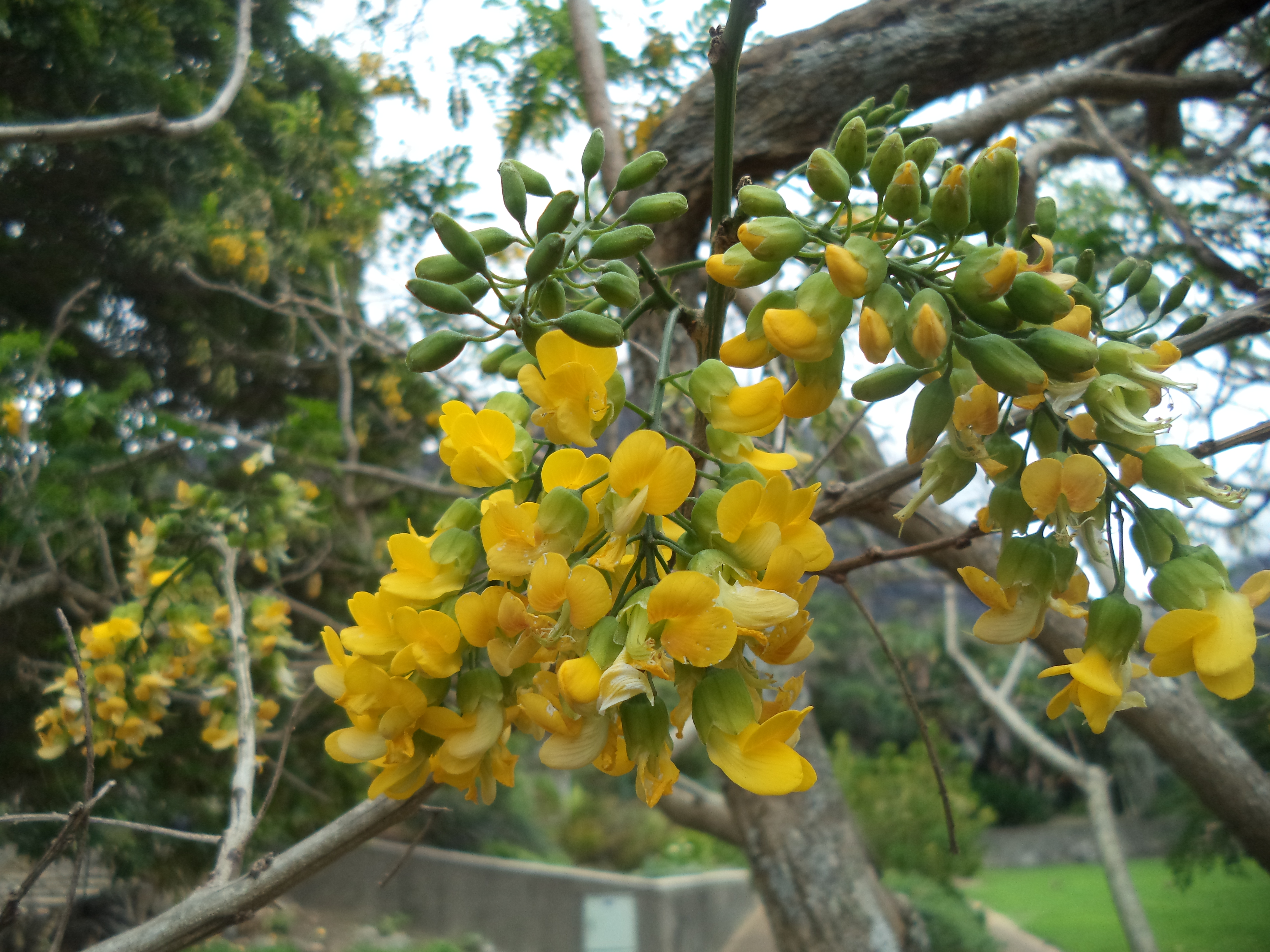 Calpurnia aurea, Kirstenbosch botanical garden